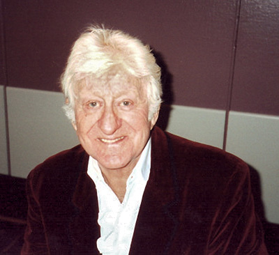 Jon Pertwee March 1996 at Doctor Who Convention, in Glasgow, around 2 months before his death from a heart attack.